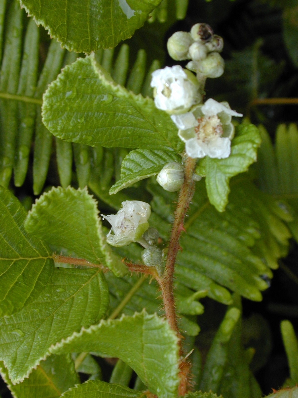 Rubus ellipticus (flowers and leaves). Location: Hawaii, Hwy11 Mountain view